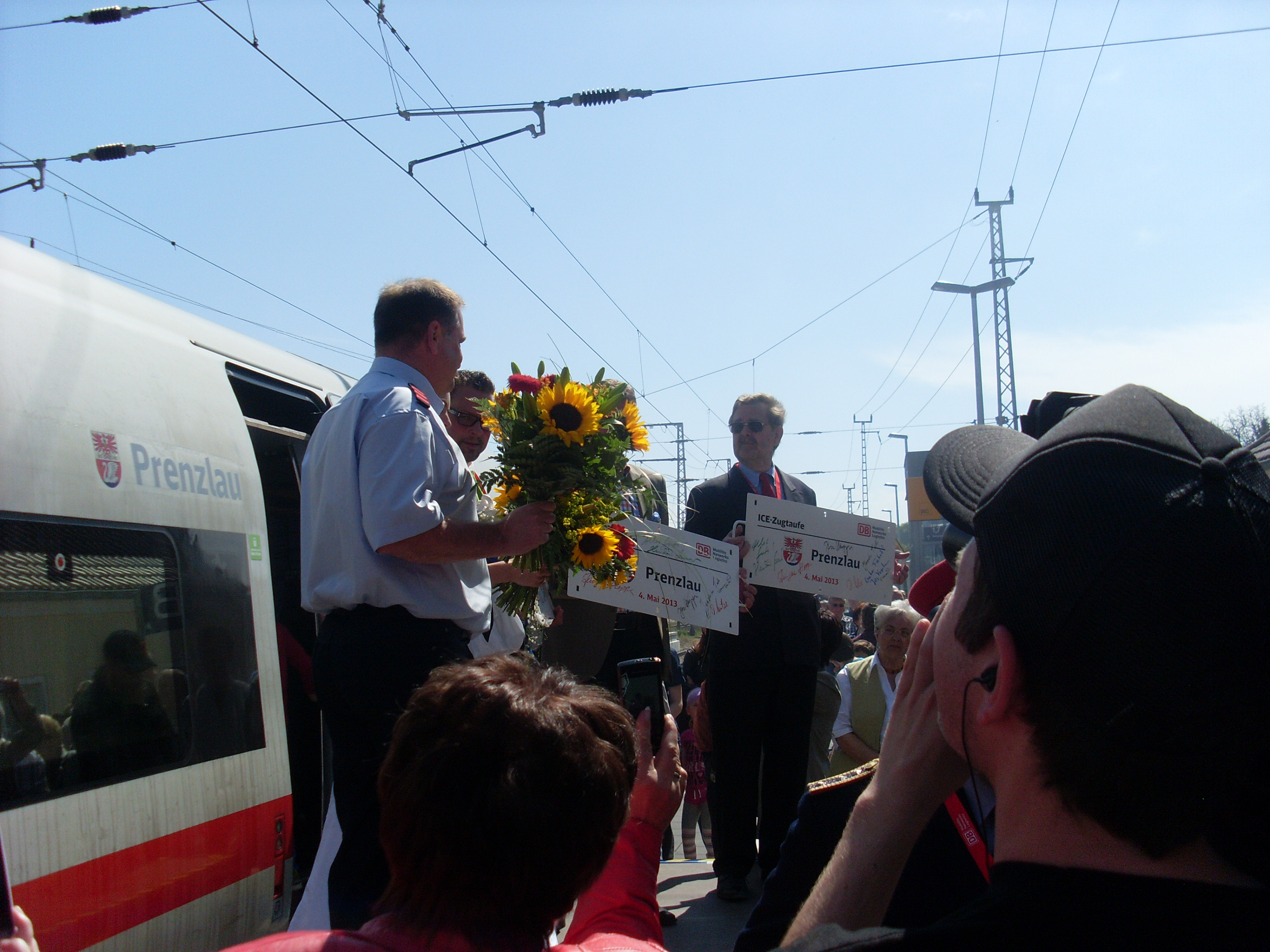 An ICE T is baptized in Prenzlau.